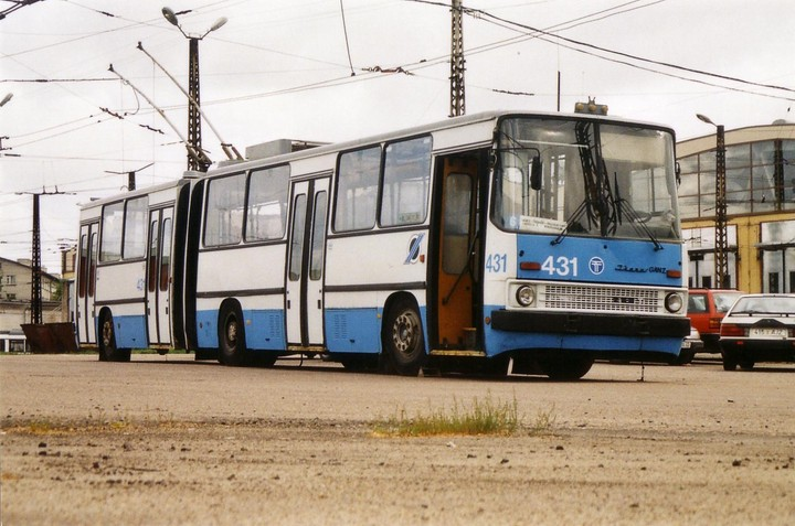 Ikarus-Ganz 280T in Tallinn.